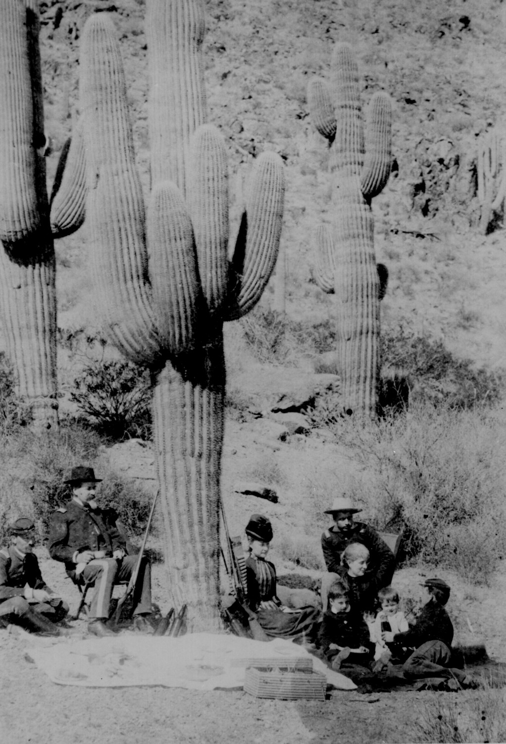 US Army officers and their families having a picnic at Fort Thomas, Arizona, on February 18, 1886.